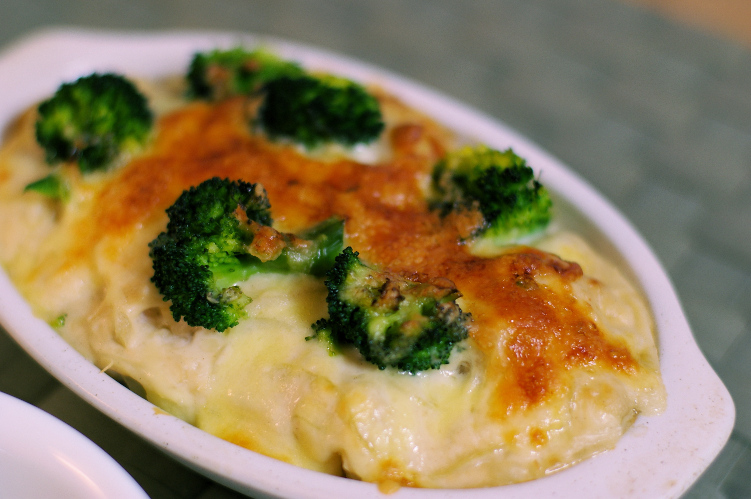 You will see only broccoli and cheese. But the dish contains potato and shrimps, too! I didn't know 'gratin' is French. I thought it was Italian.